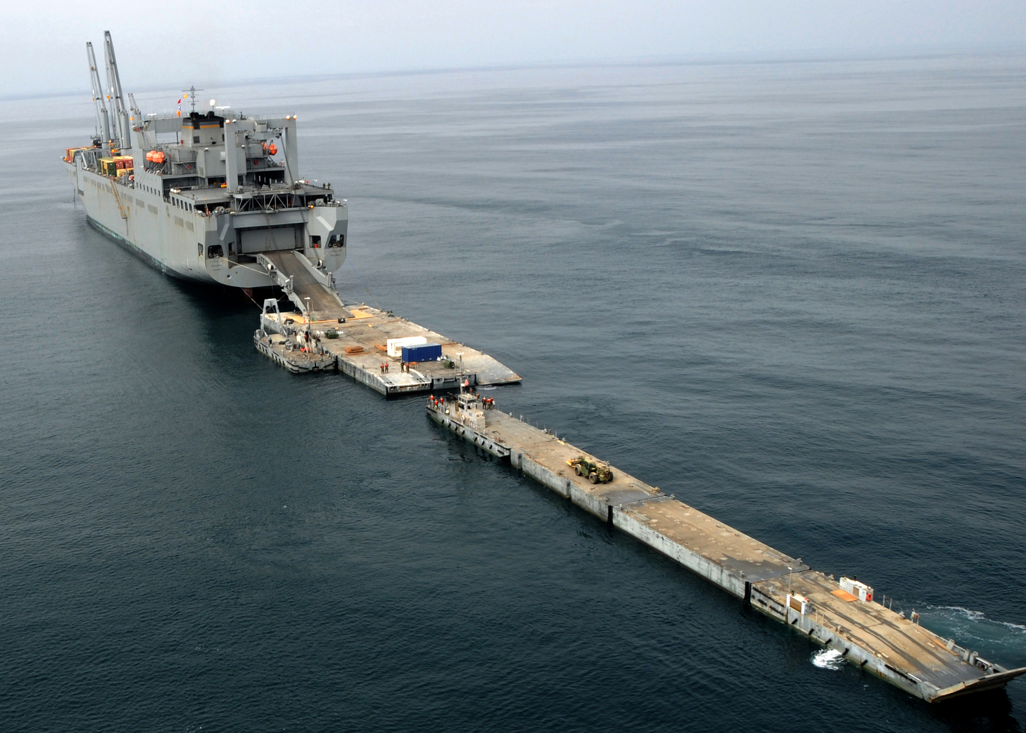 PACIFIC OCEAN (July 22, 2008) The Military Sealift Command large, medium roll-on/roll-off ship USNS Pililaau (T-AKR 304) is anchored off the coast of Red Beach in Camp Pendelton, Calif. with the roll-on/roll-off discharge facility attached as the improved navy lighterage system makes its approach during Joint Logistics Over-The-Shore (JLOTS) 2008. JLOTS 2008 is an engineering, logistical training exercise between Army and Navy units under a joint force commander as a means to load and unload ships without the benefit of deep draft-capable, fixed port facilities. (U.S. Navy photo by Mass Communication Specialist 2nd Class Brian P. Caracci/Released)